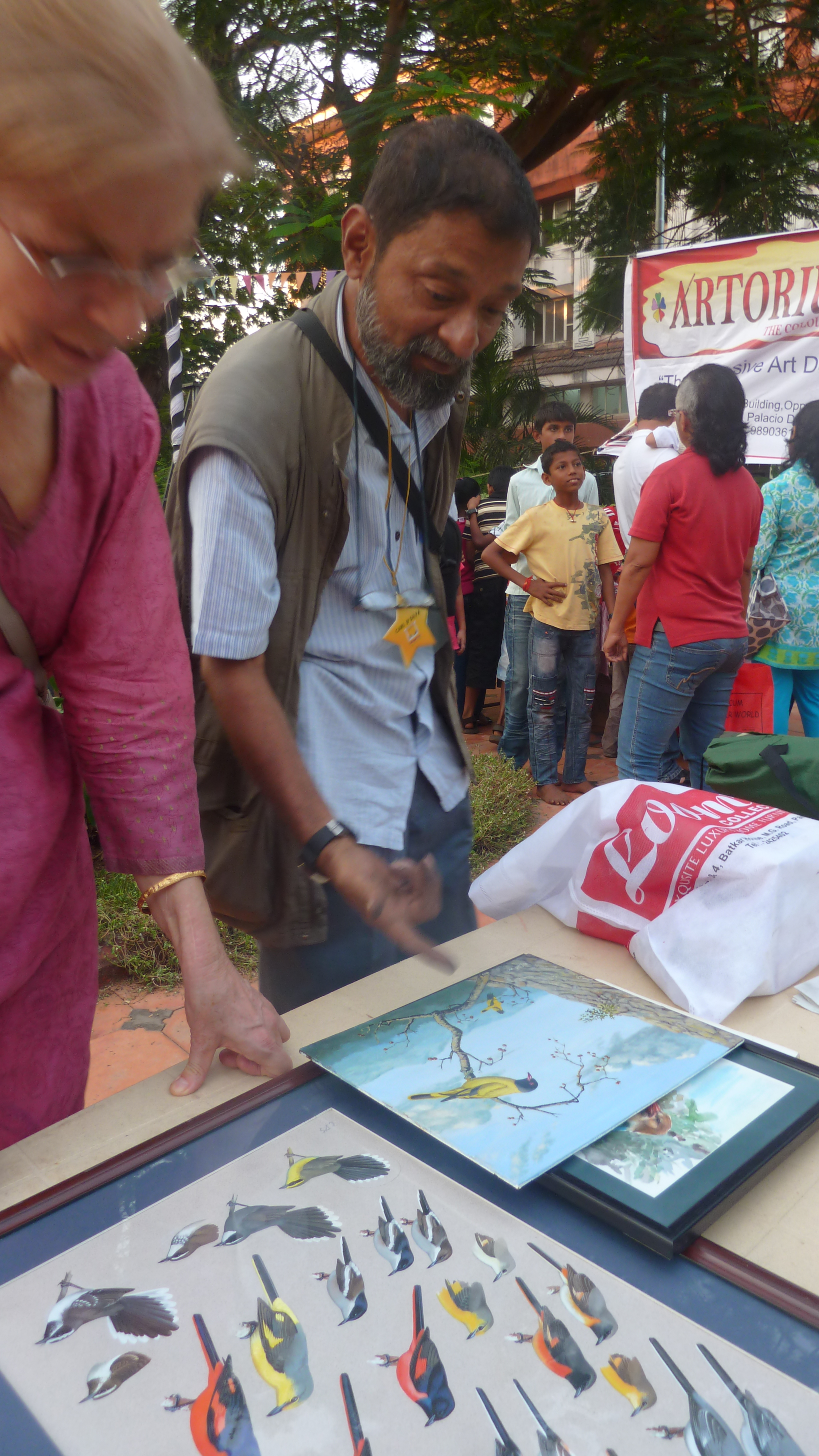 Carl D'Silva, from Goa, artist and naturalist well known for his paintings of birds in many ornithological handbooks and field guides.